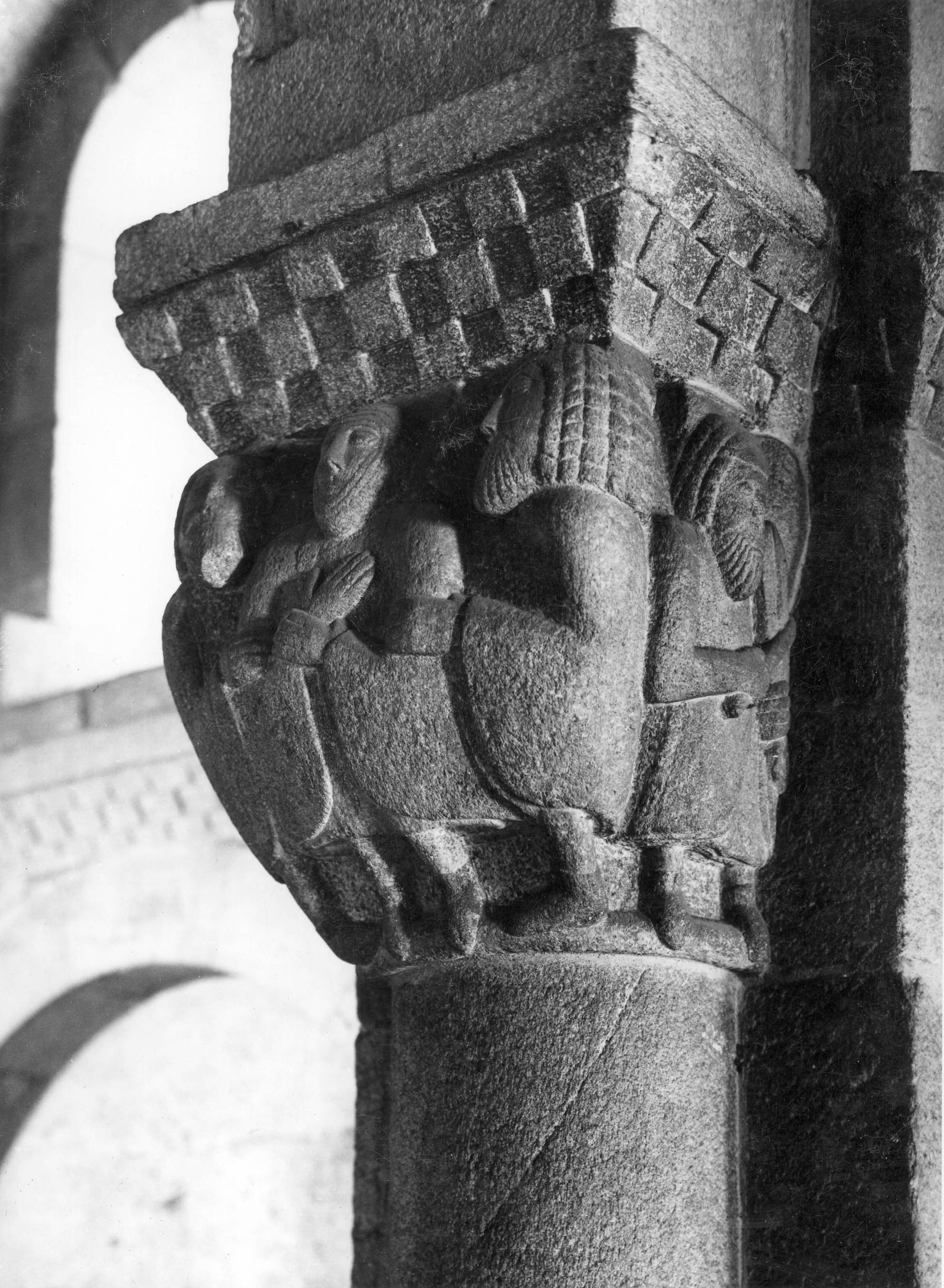 Capitals inside the Romanesque church of Rio Mau, Vila do Conde, Portugal Capitel historiado. Fotógrafo: Mário Novais, 1899-1967. Orientador científico: Mário Tavares Chicó, 1905-1966. Data aproximada da produção da fotografia original: 1954. [CFT015.321.ic]